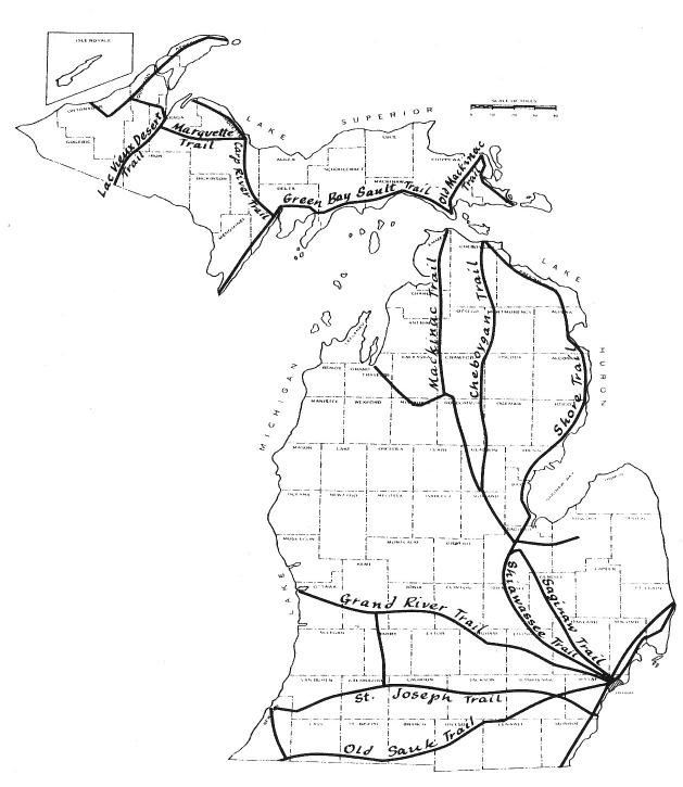 Map of the Indian trails across what is now the State of Michigan before statehood